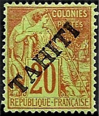 A French colonial stamp of about 1893 overprinted for use in Tahiti.